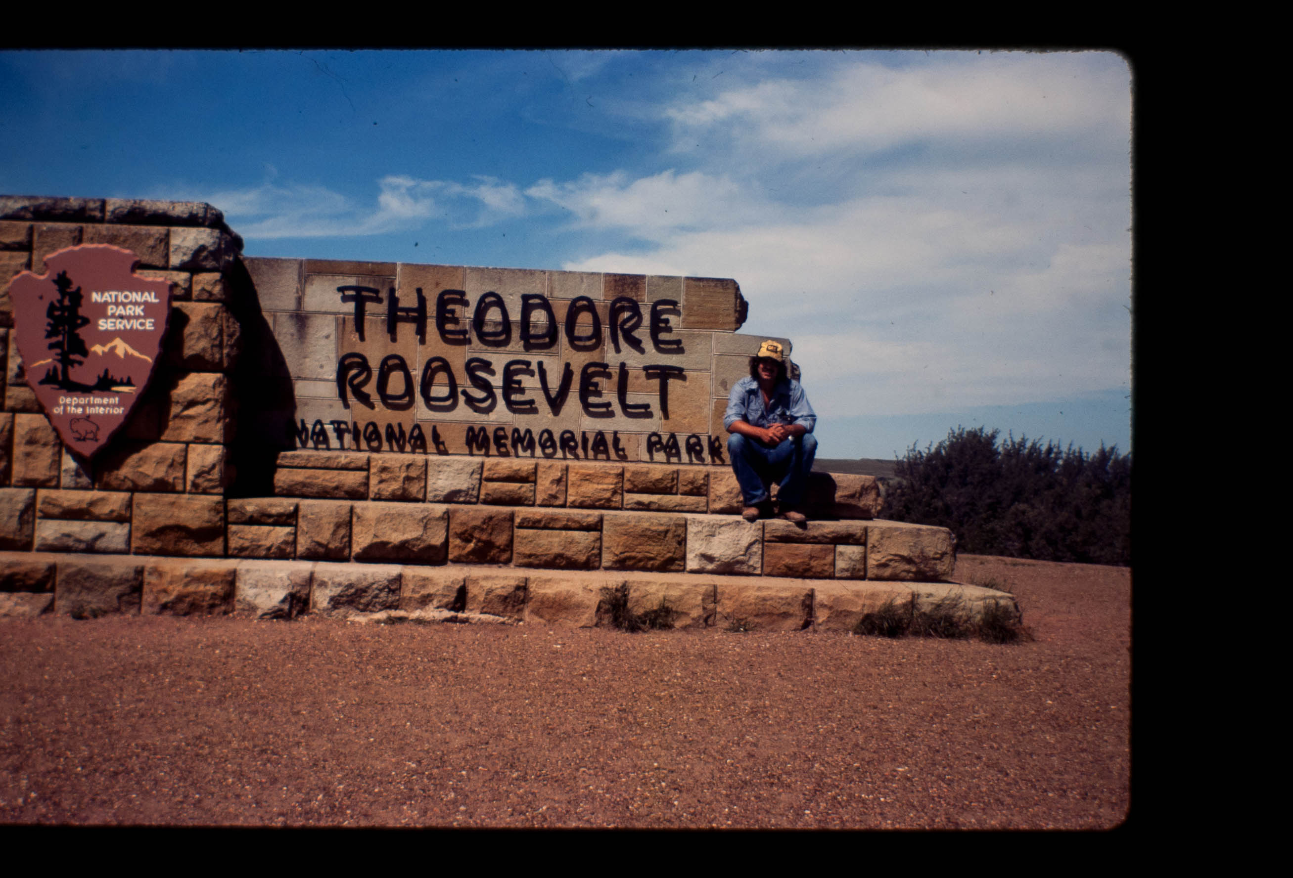 National Park sign at entrance to 'Theodore Roosevelt National Park — located in North Dakota. Sony dsc